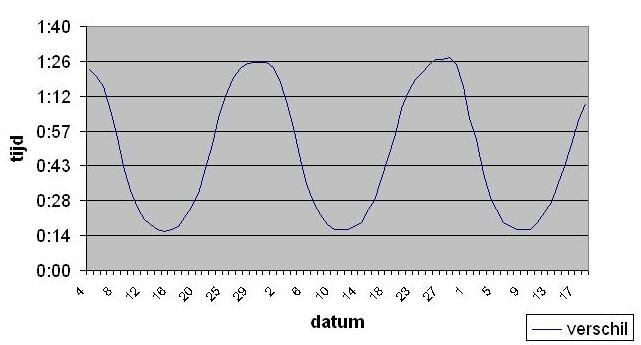 Het verloop van het tijdsverschil in maanopkomst (4 augustus - 19 oktober 2011)